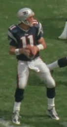 New England Patriots quarterback Drew Bledsoe in a game against the Cleveland Browns